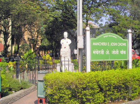 Maheshwari udyan (Kings circle) this colony is very near